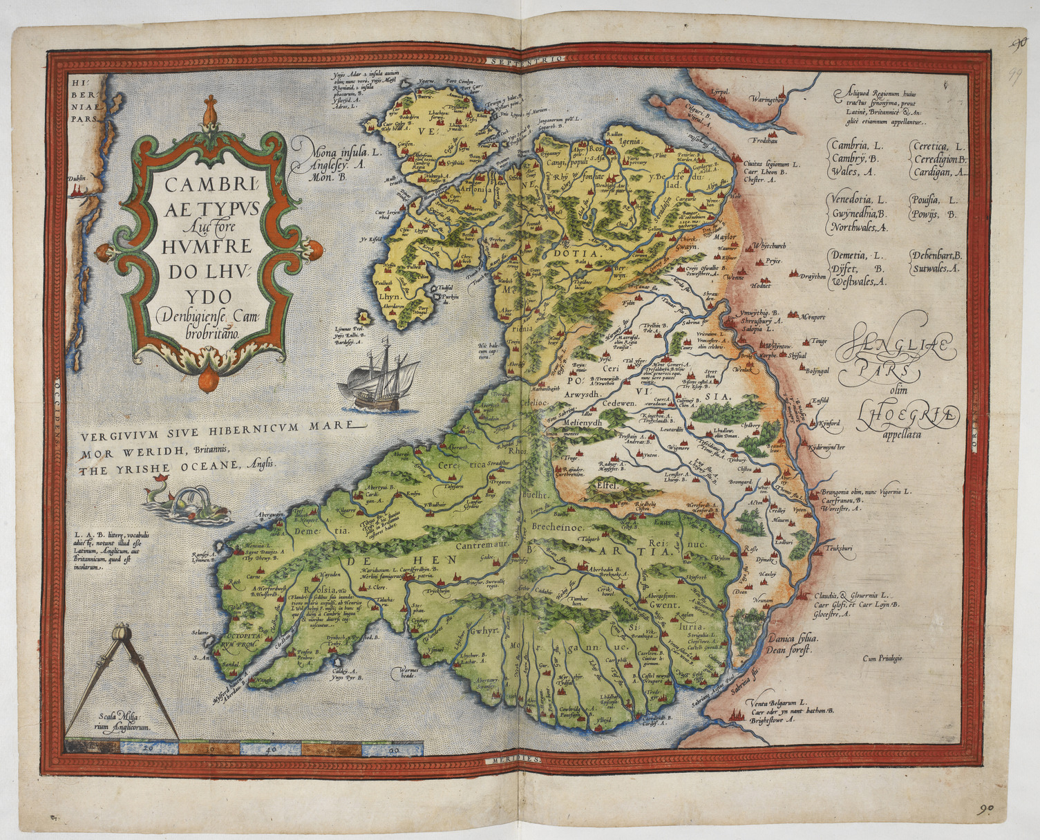 Coloured printed map of Wales and Anglesey